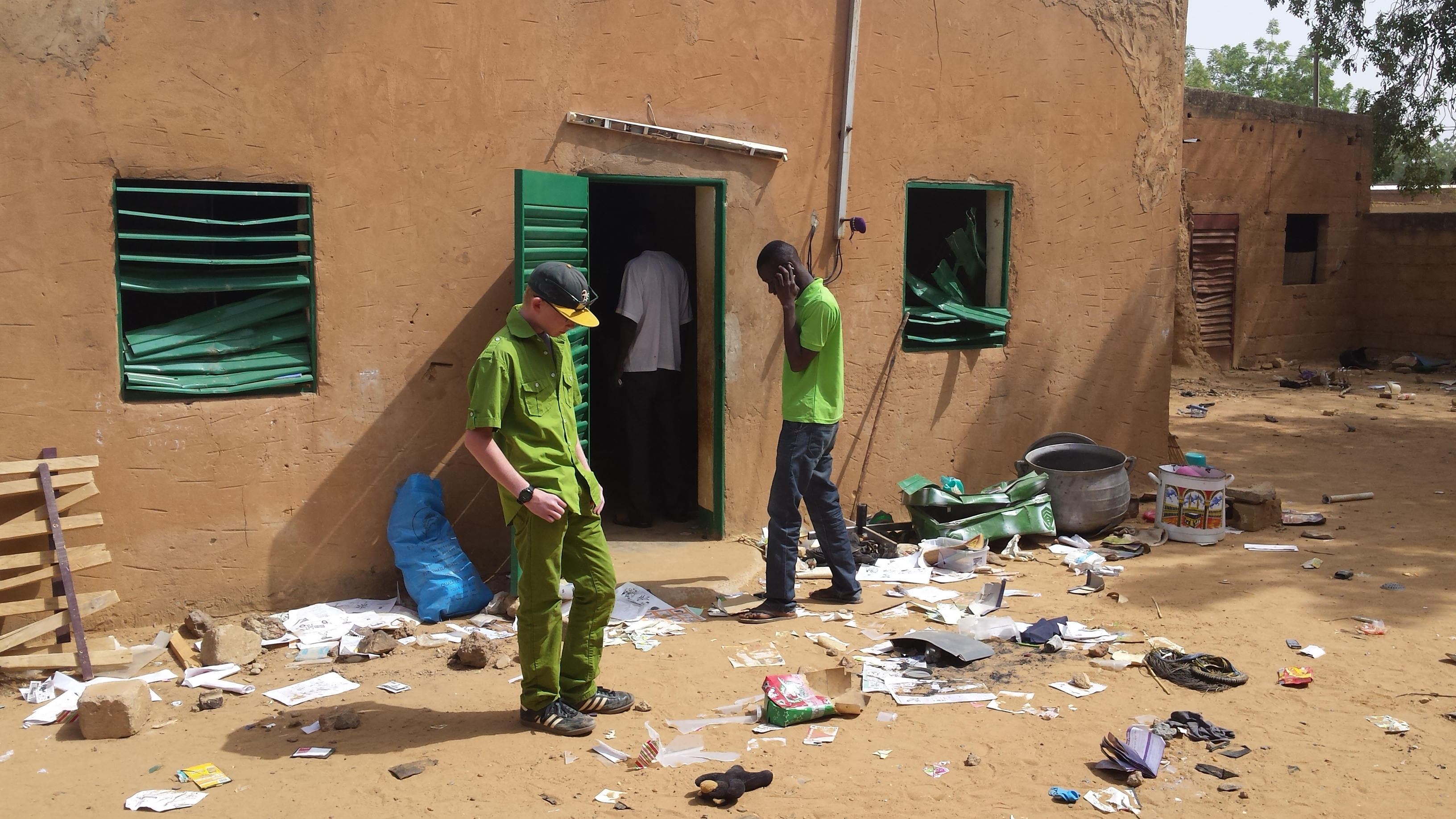 A Church in Niamey after being attacked by rioters. Aftermaths of the Charlie Hebdo shooting in Paris.